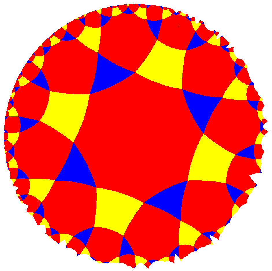 Hyperbolic plane regular tiling: t0,1(4 4 3)